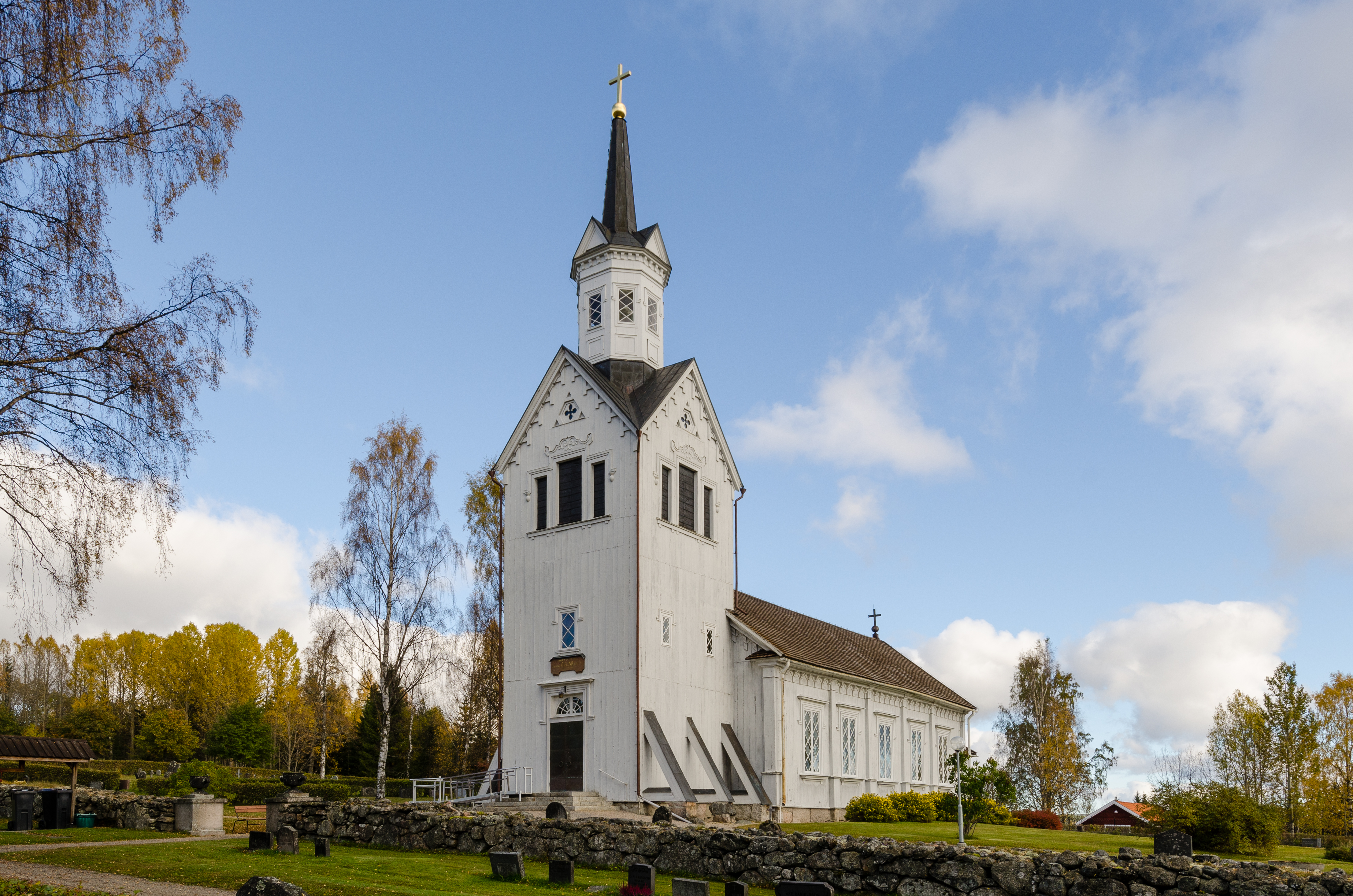 Los kyrka (church).